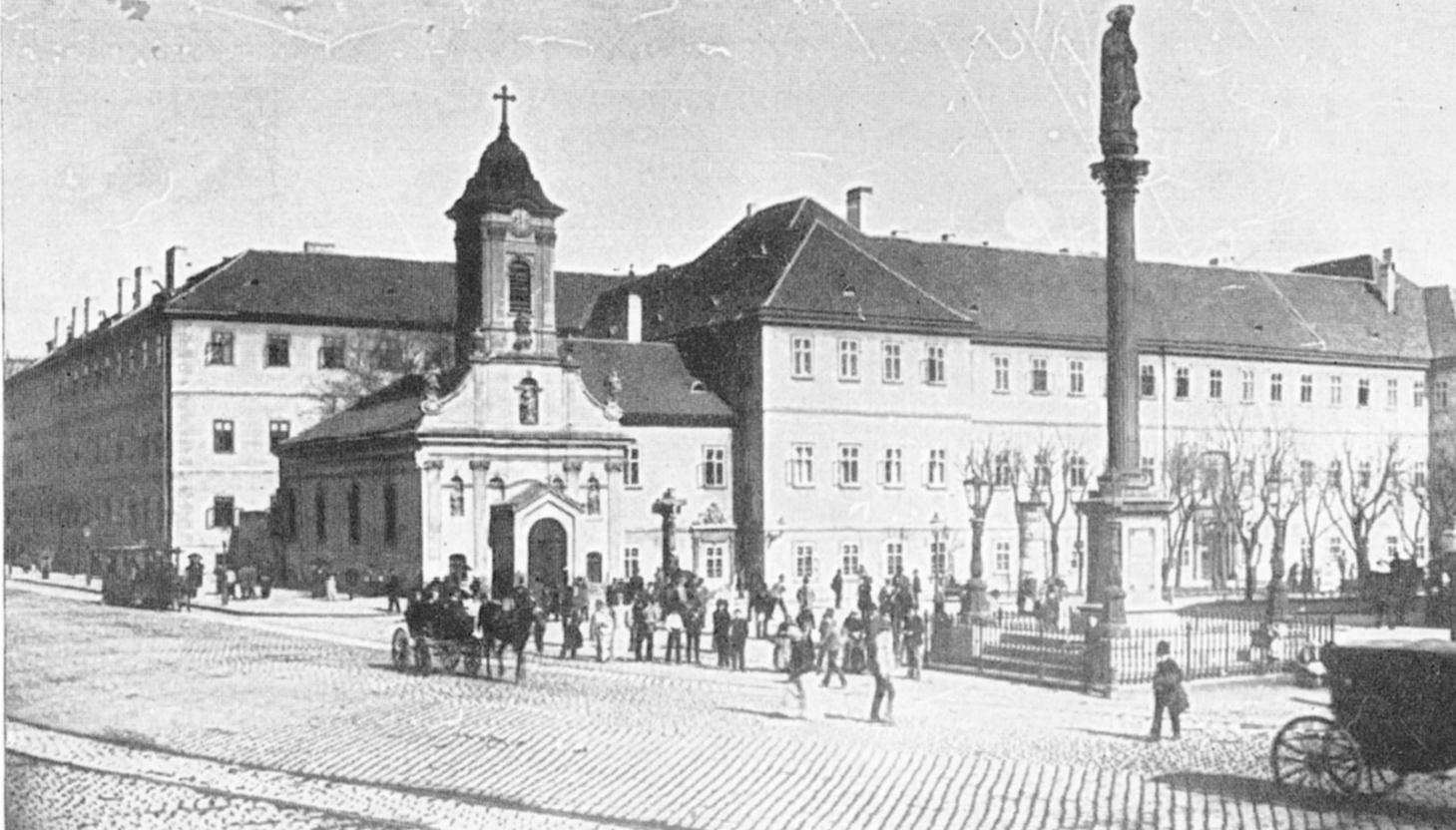 St. Rochus Hospital Budapest sometime in the 1800s